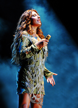 Helena Paparizou performing in Athens during her Summer Tour 2010